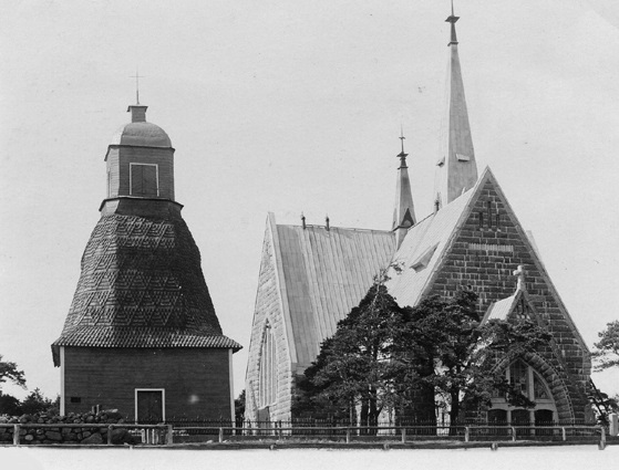 The lutheran church of Koivisto. Next to the church is old belltower, destroyed in 1944.